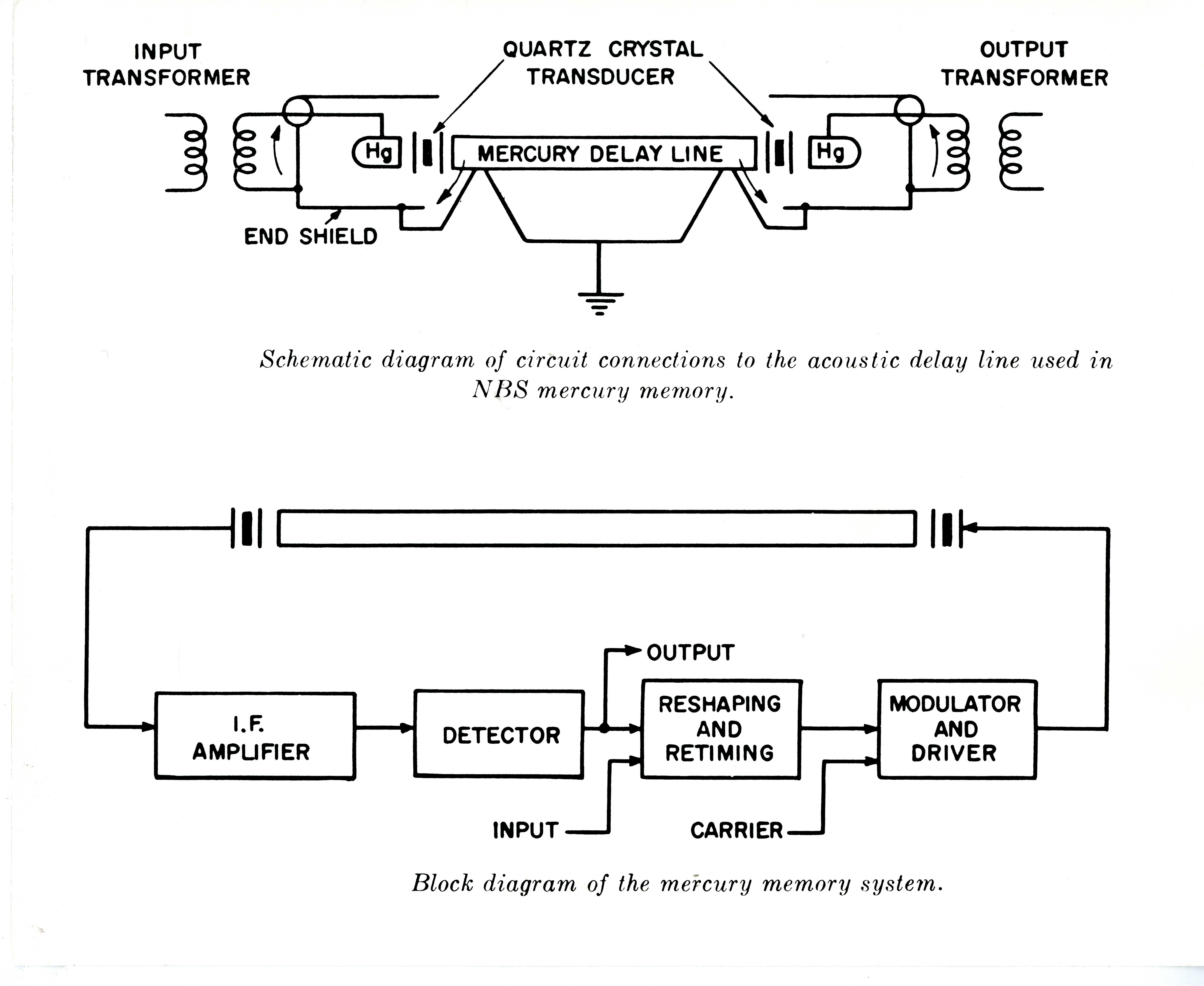 Schematic of circuit connections to the acoustic delay line used in NBS mercury memory [top]; block diagram of the mercury memory system [bottom] [diagram]